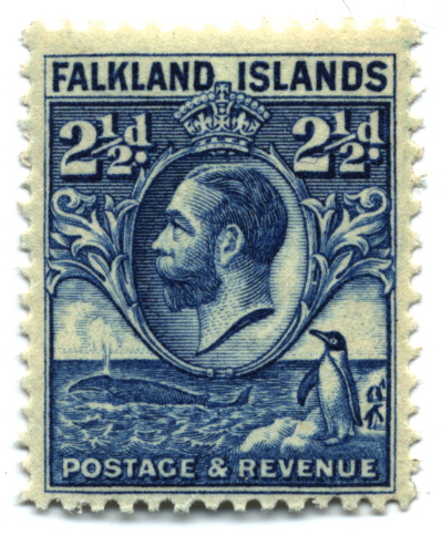 Scan of Falkland_Islands 2 1/2-pence stamp of 1929